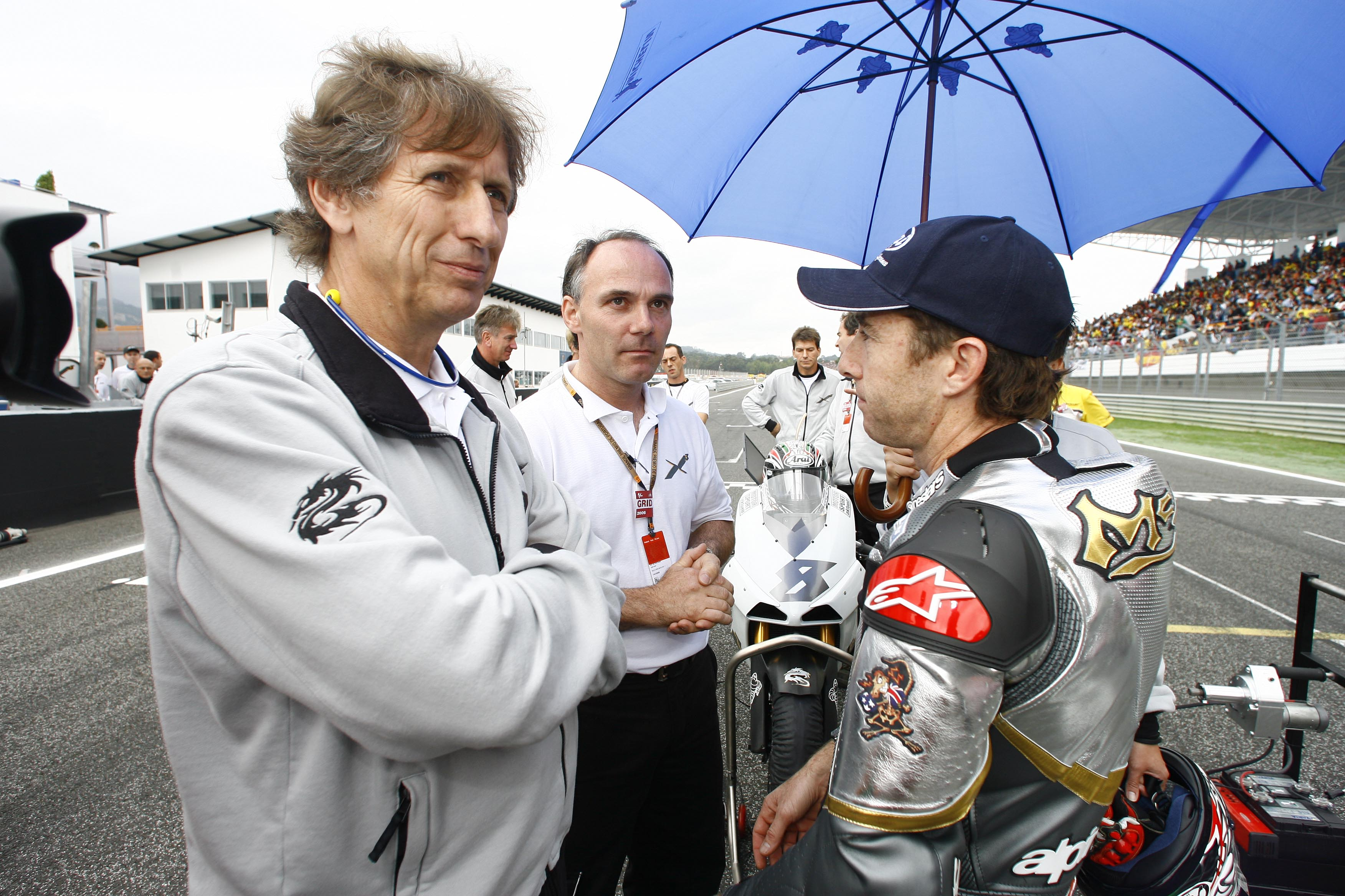 Mario Illien (left) with Garry McCoy (right) and Eskil Suter (middle) in Estoril 2006 (Debut of Ilmor 800ccm MotoGP) Received on request from: MotoGP Media Contact Liz Brooks, PR & Communications KHP Consulting